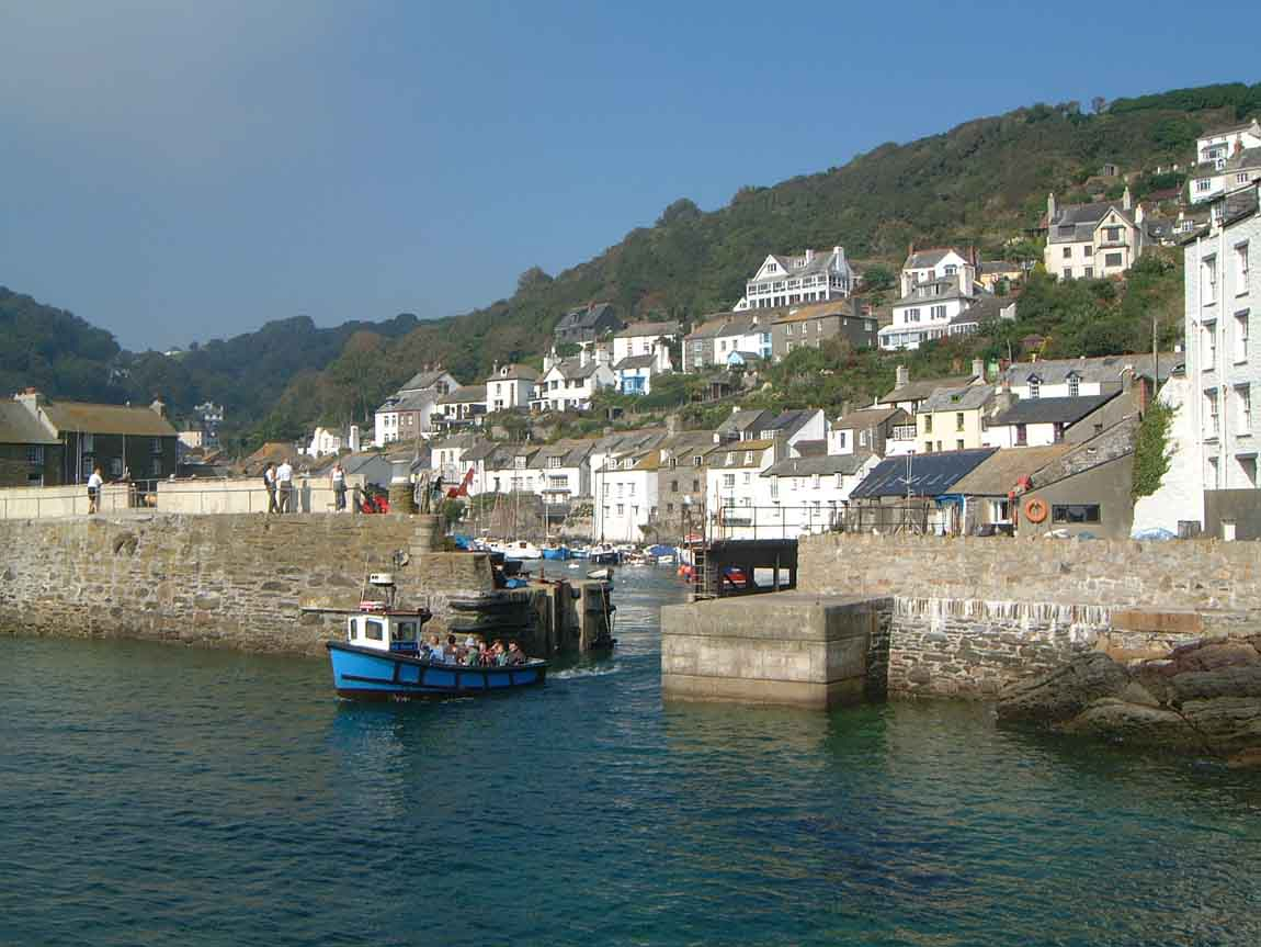 Personal photograph taken by Mick Knapton on 17th September 2003